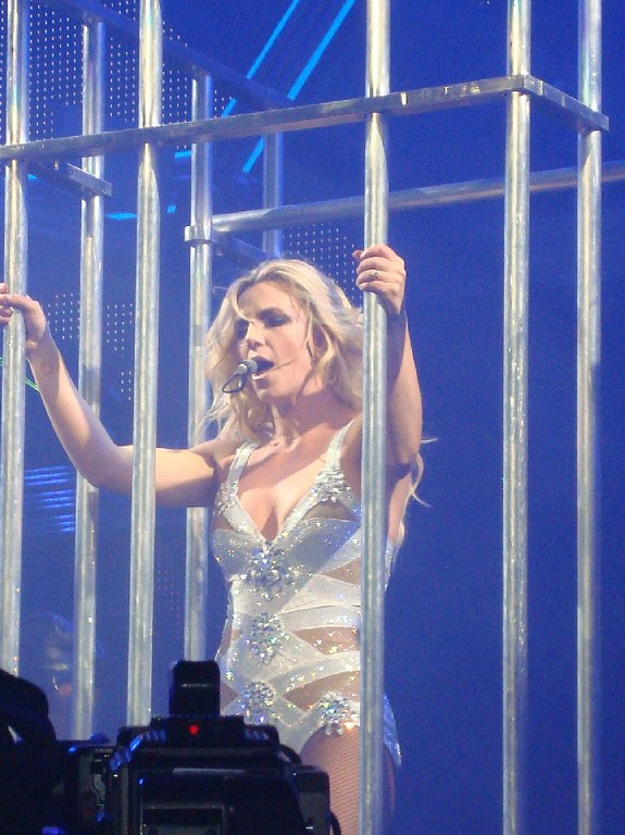 Spears